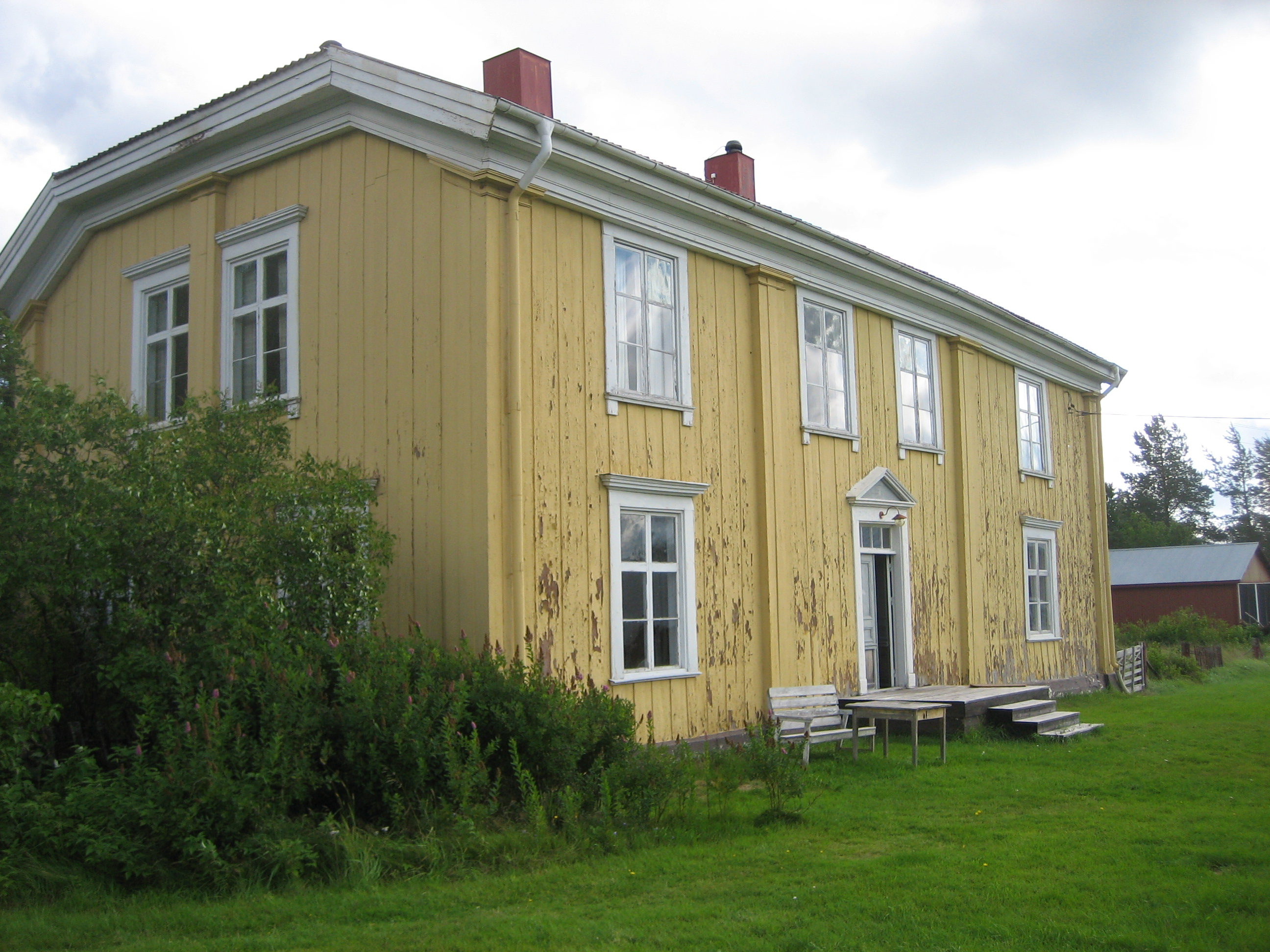 The Thurdin House in Bobacken, Västerbotten, Sweden. Main building from 1823, expanded 1846-48.